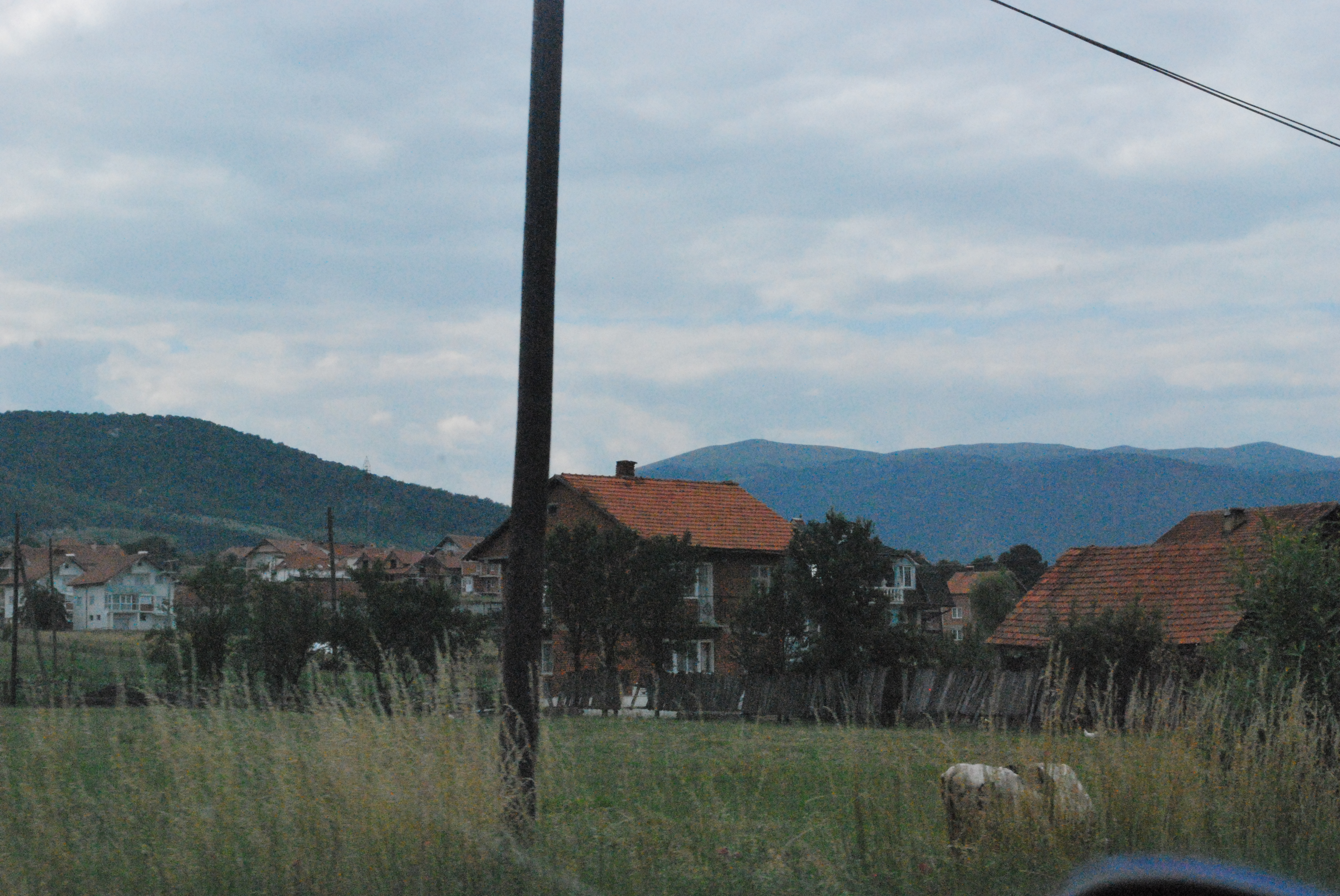 Zajas, Macedonia